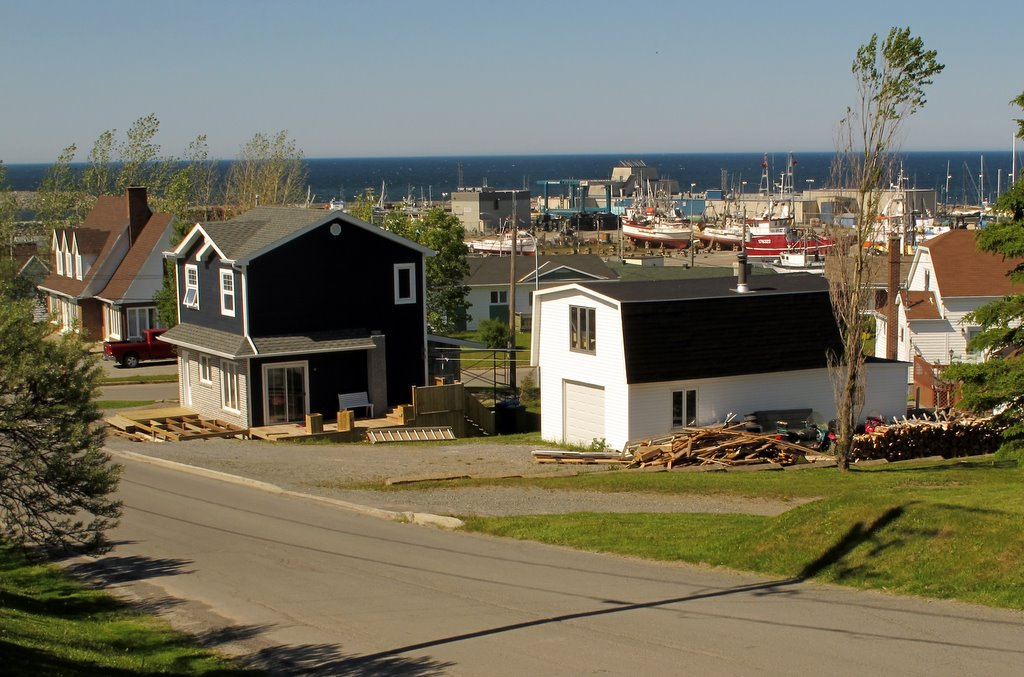 Rivière-au-Renard main road, houses and port. Gaspé, Quebec, Canada